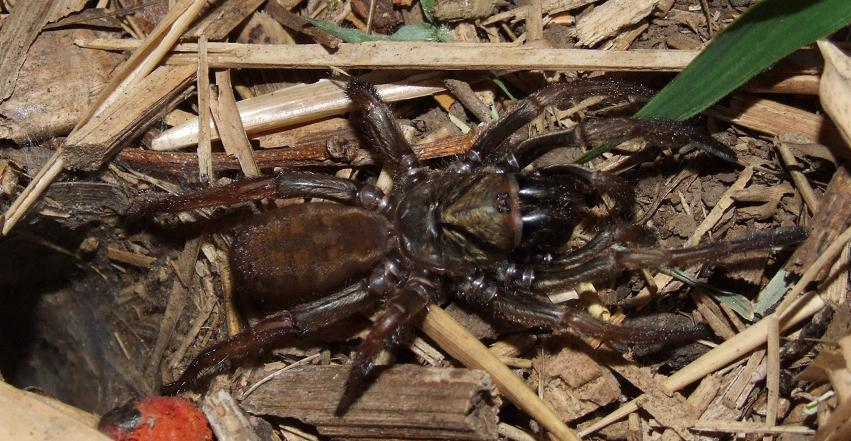 Sydney brown trapdoor spider (Misgolas rapax) in Kurrajong, New South Wales.